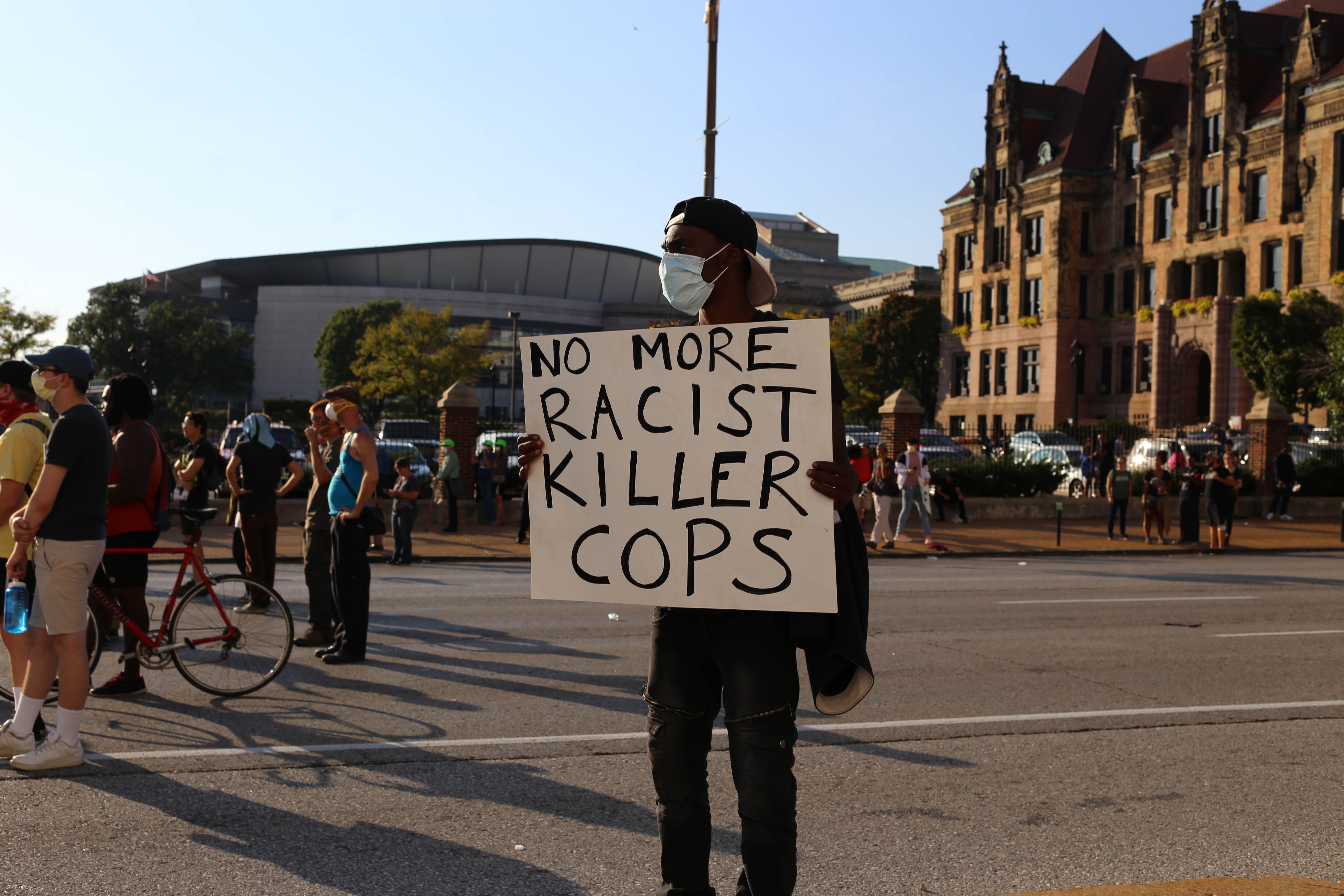 Racist Killer Cops